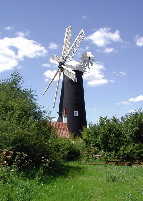 Waltham Mill, Lincolnshire. Restored and in working order.